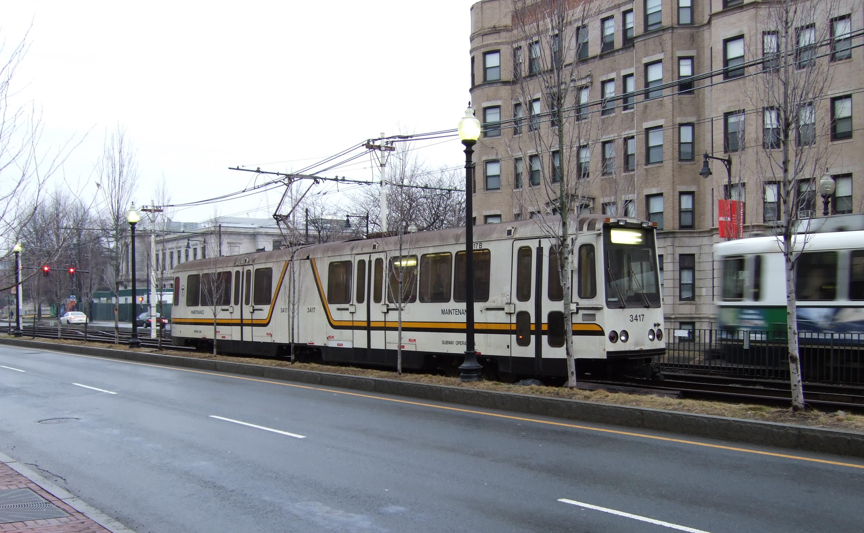 An MBTA Green Line maintenance vehicle sits on the third track between Northeastern and Museum of Fine Arts. The vehicle is a converted Boeing LRV, serving as rerailer car #3417.